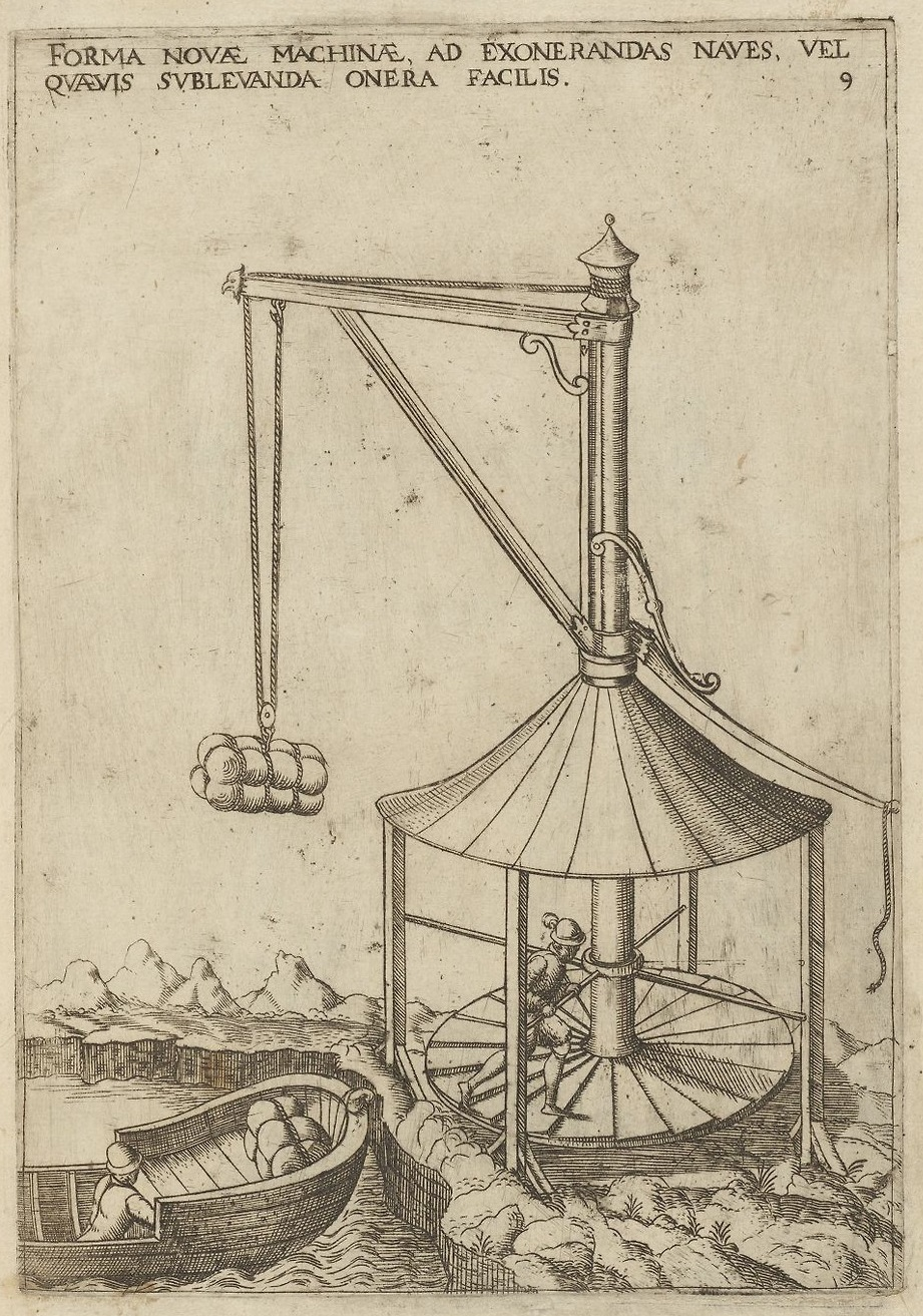 Illustration from Instruments mathematiques mechaniques, 1584, by Jean Errard (1554-1610). Plate 9. Typ 515.84.368, Houghton Library, Harvard University